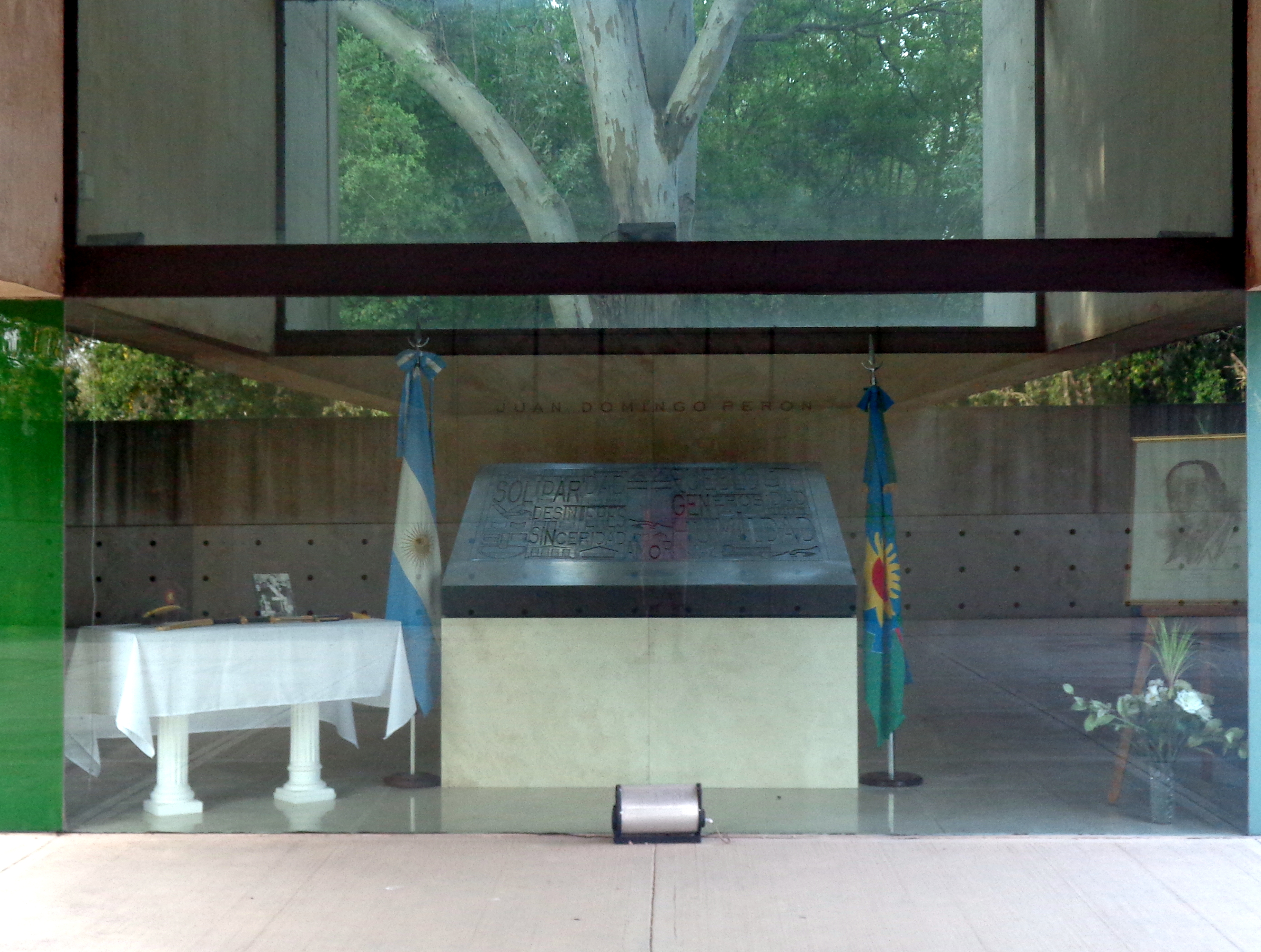 Mausoleum in which the grave of Juan Domingo Perón is located, Museo Histórico Provincial 17 de Octubre, in Quinta San Vicente, Province of Buenos Aires, Argentina.